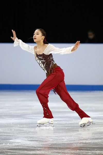 Photos – Junior World Championships 2018 – Ladies (Young YOU KOR – 9th Place)